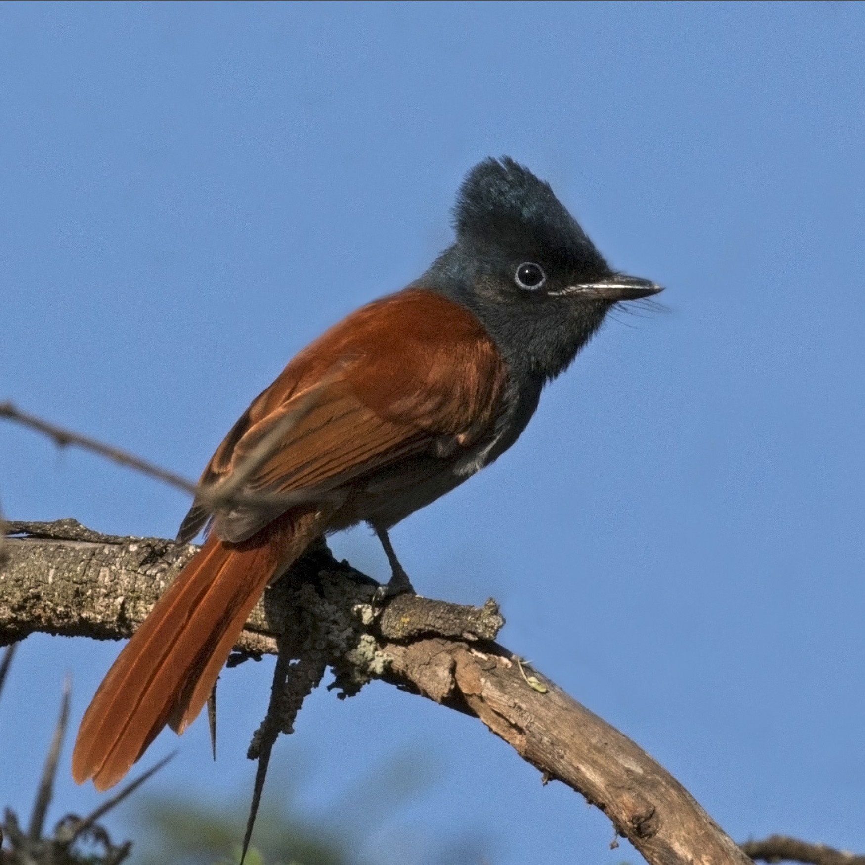 African paradise-flycatcher (Terpsiphone viridis) rufous morph female, Soysambu Conservancy, Kenya